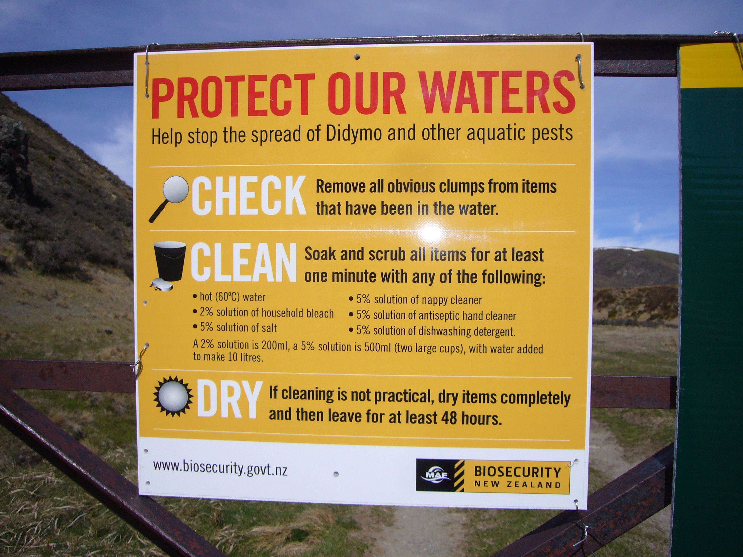 A didymo sign on a gate that leads to Maling Pass in Canterbury, New Zealand.